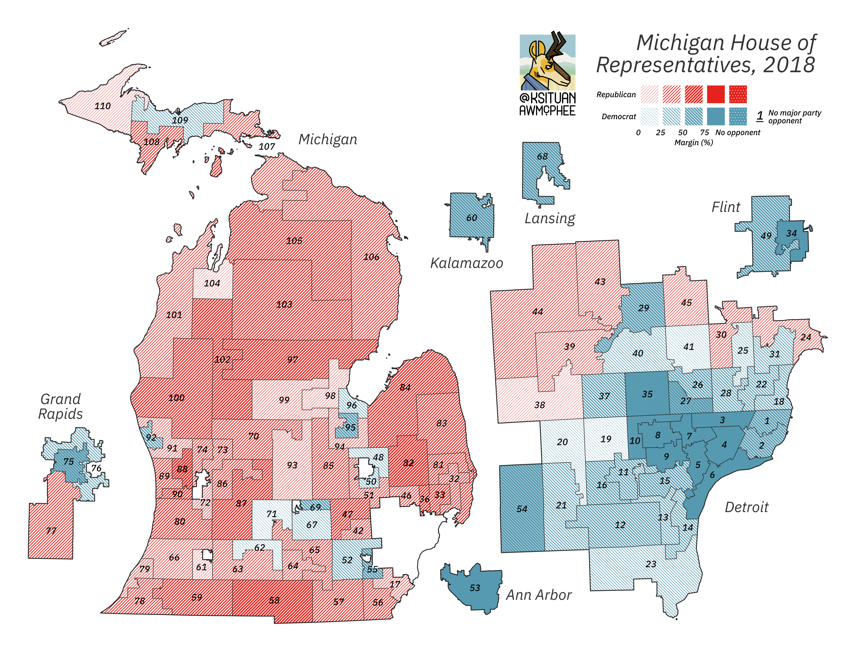 A series of state legislative election maps, created from open data during the summer of 2020. Their common visual style is designed to accomodate all of the unique features of American democracy. They were created using QGIS and Inkscape, two free programs. Please use freely and contact the author with any inquiries about visualizing election data with open-source tools.